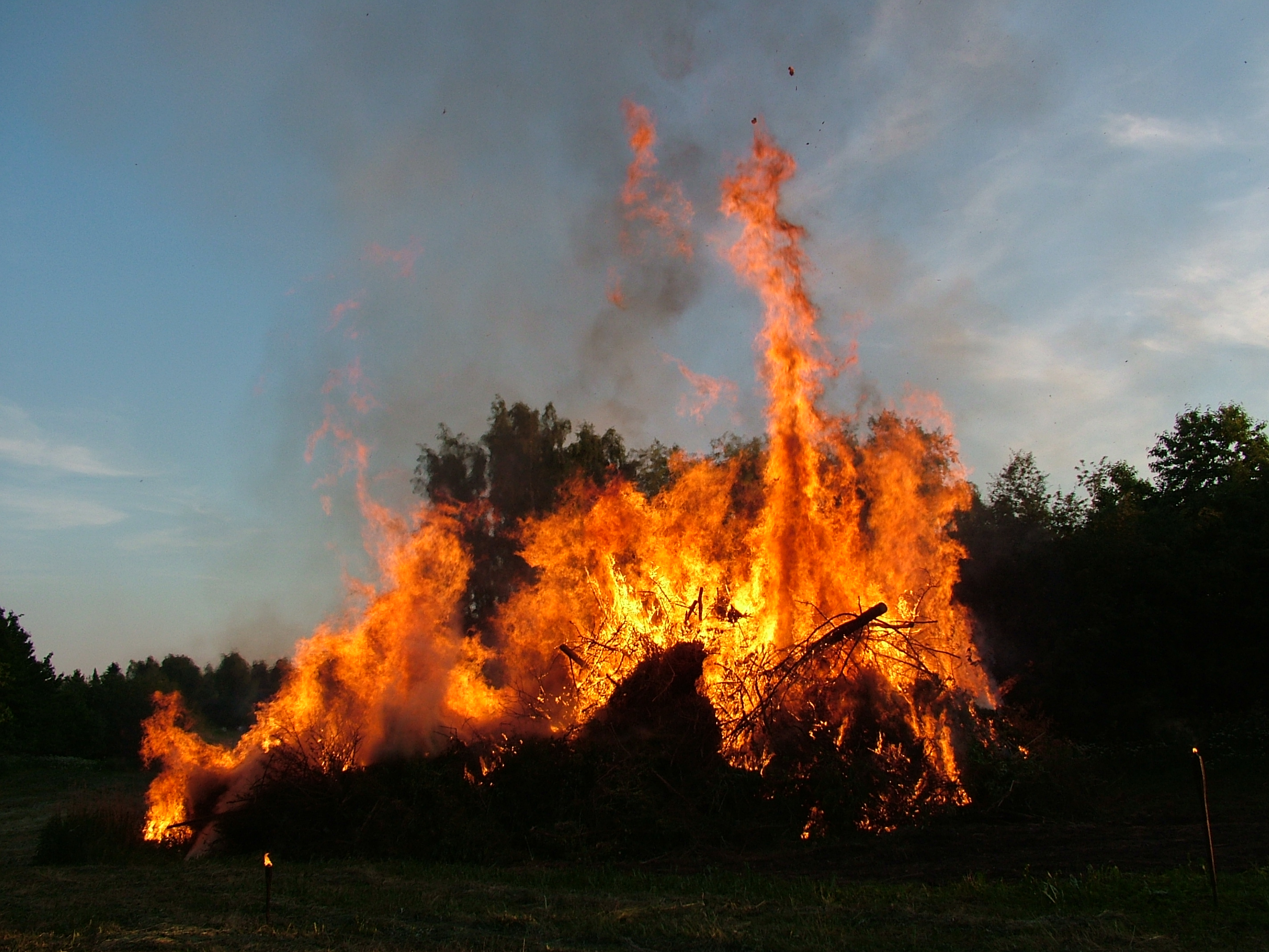 On 23rd June all Danes meet at the bonfire